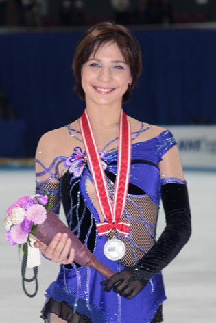 Alena Leonova (RUS) at the 2009 NHK Trophy.